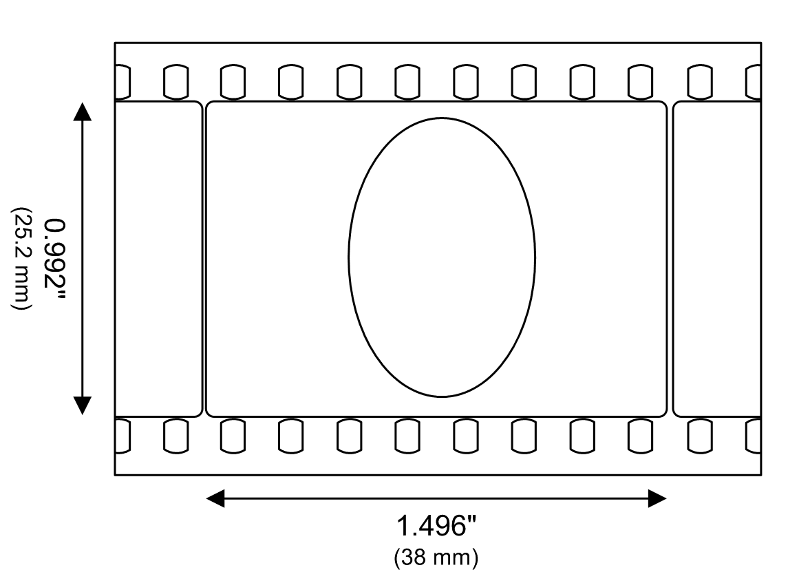 Technirama 8 perf 35 mm horizontal film.